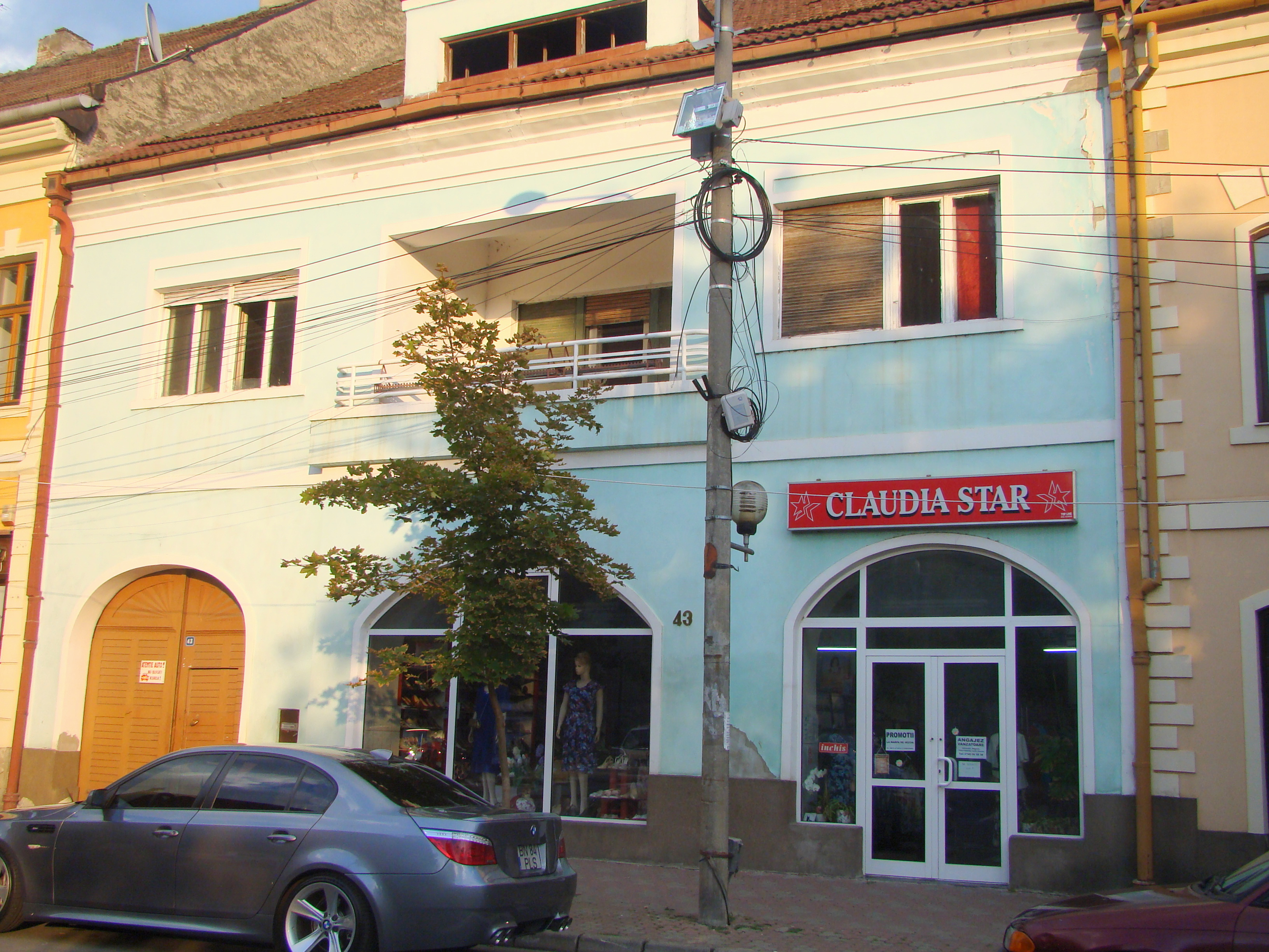 House, historic monument, in Bistrița, Piața Centrală 43